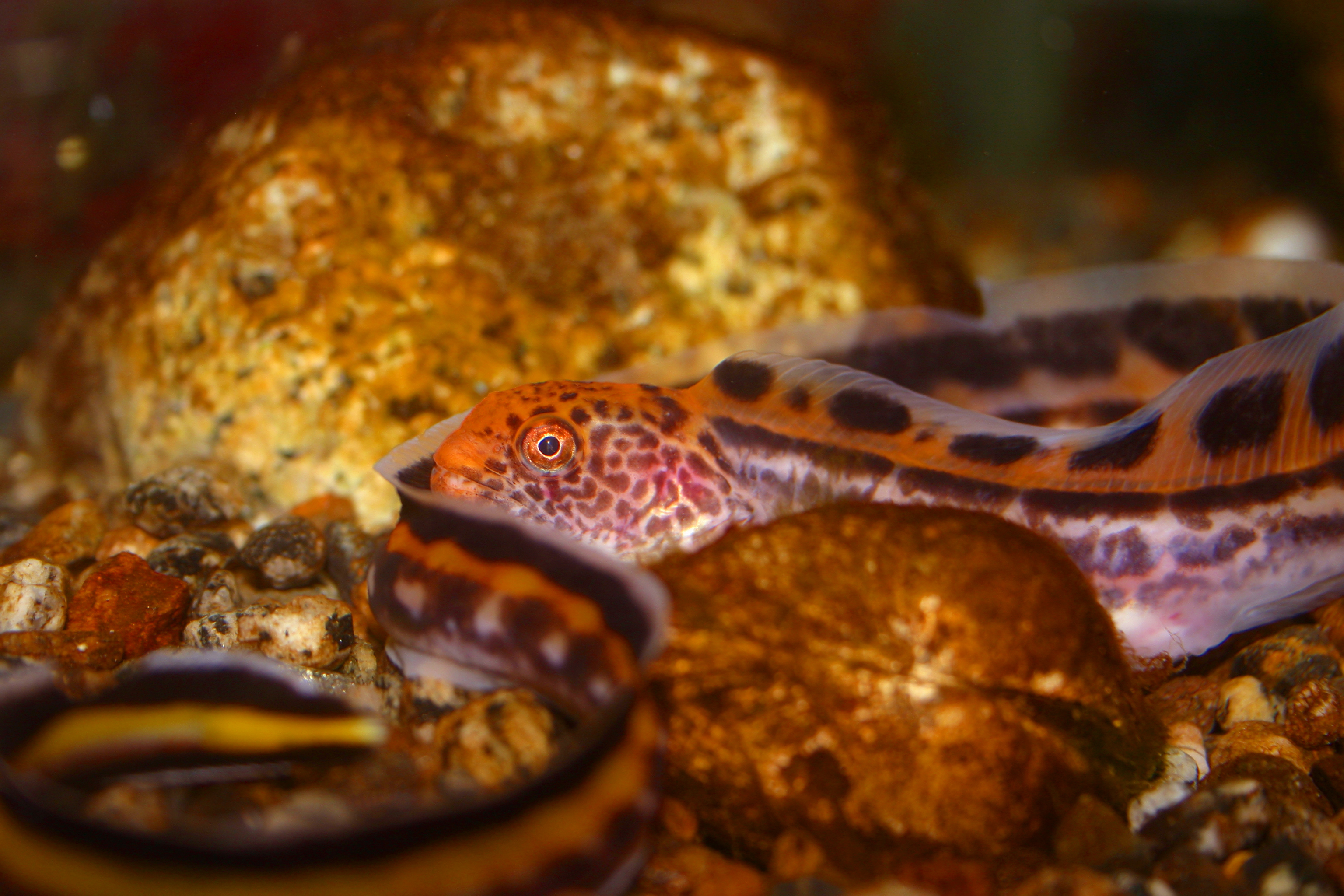 A small juvenile wolfeel (Anarrhichthys ocellatus) Image ID: fish4009, NOAA's Fisheries Collection Location: Alaska, Juneau